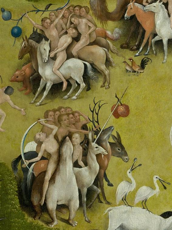 The Garden of Earthly Delights, central panel, detail.